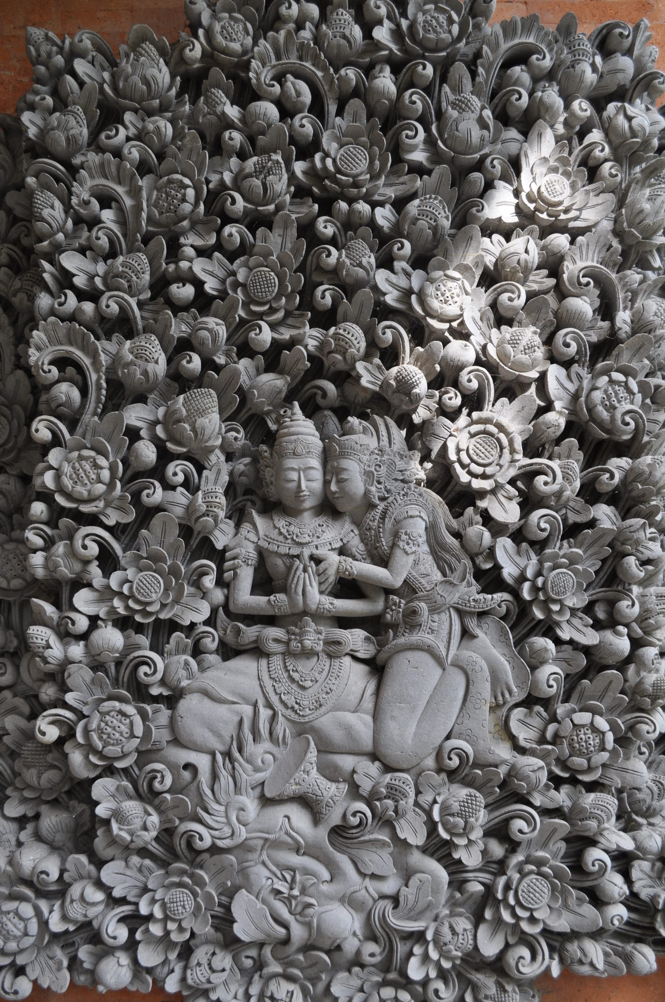 Art in a Balinese Hindu temple